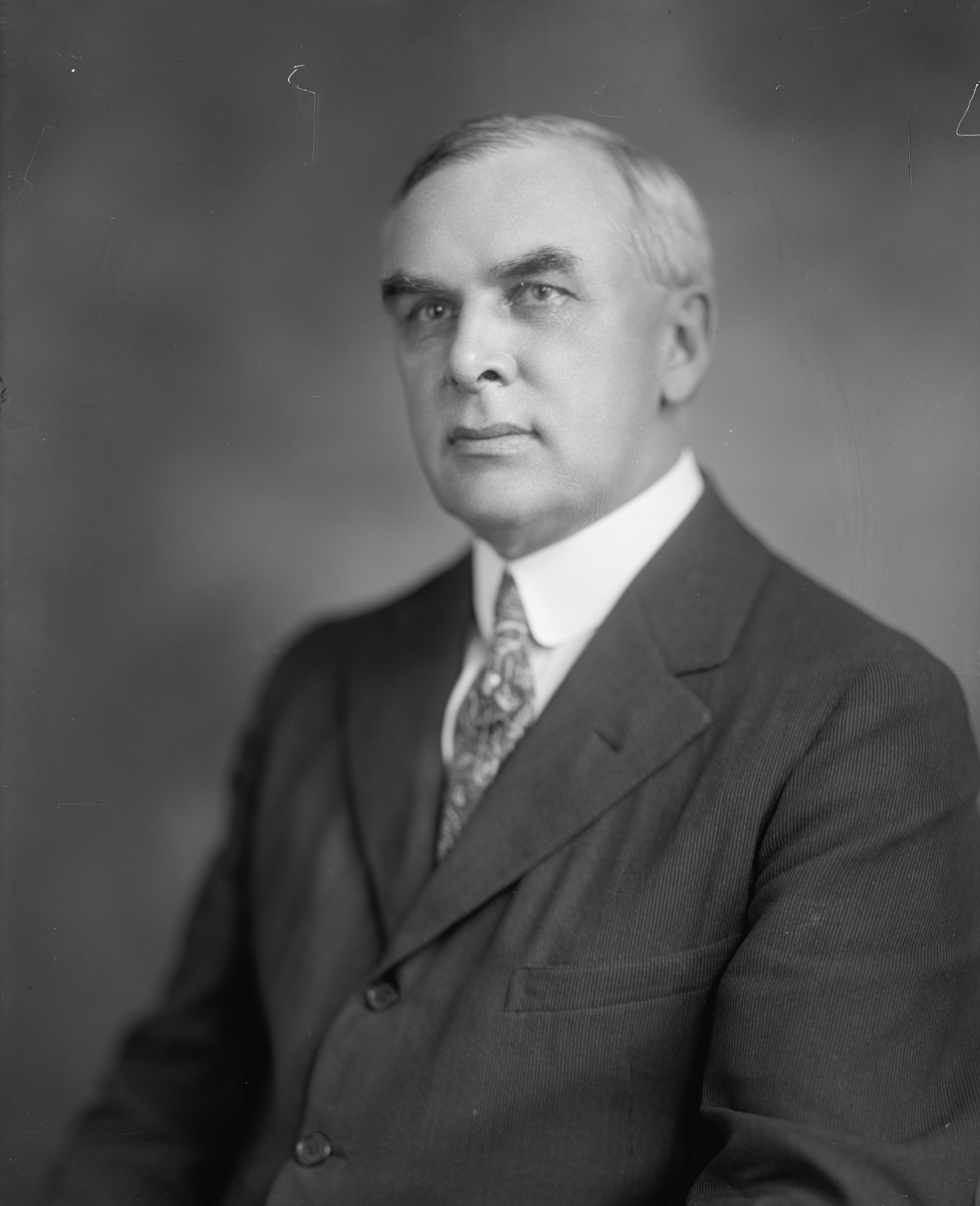 Title: RAKER, JOHN E. HONORABLE Abstract/medium: 1 negative : glass ; 8 x 10 in. or smaller